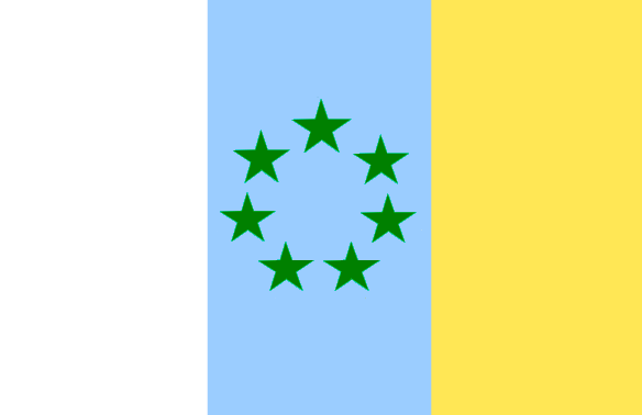 Flag of FREPIC-AWAÑAK, a political party seeking independence from Spain for the Canary Islands